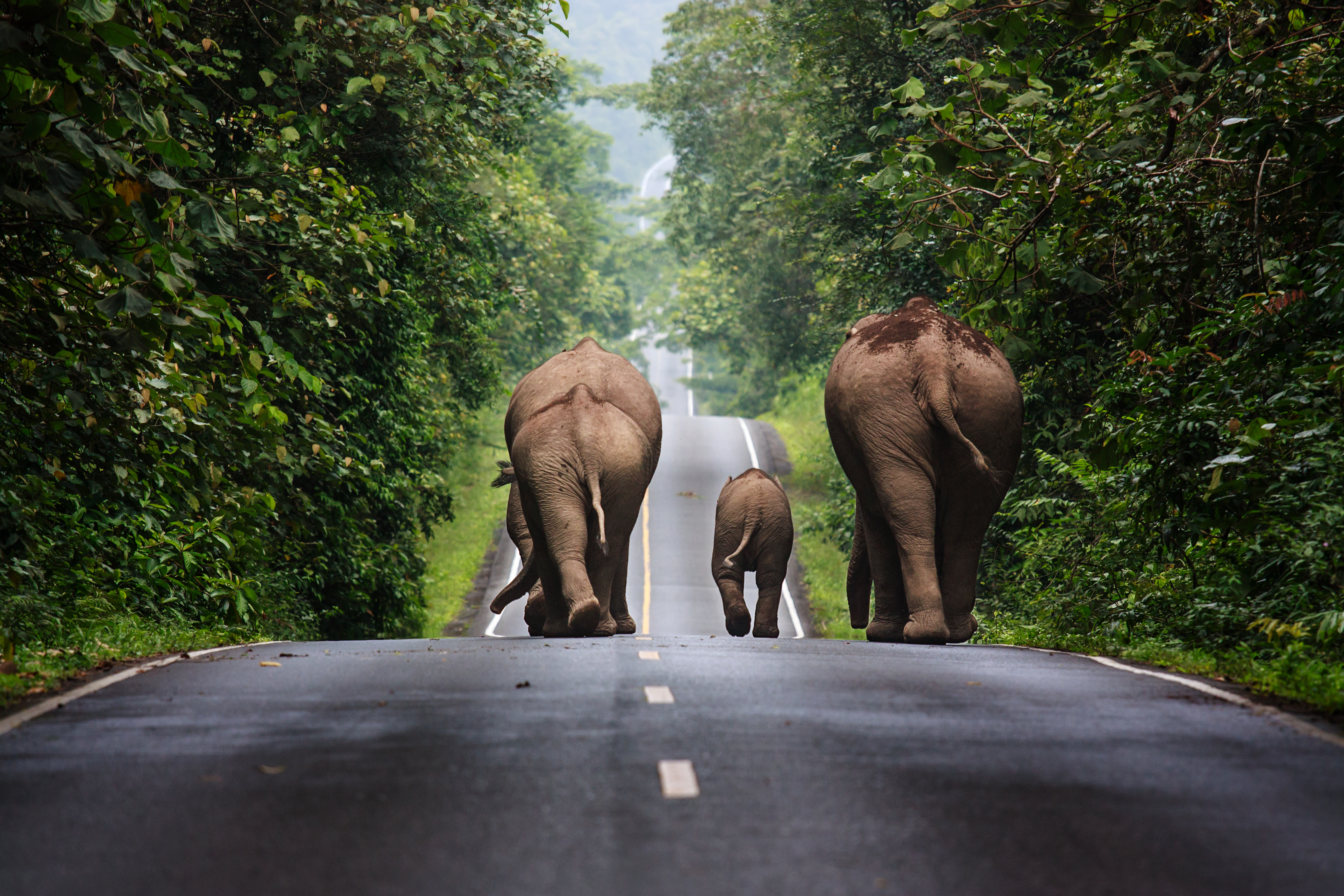 Wild elephants walking up a road in the area of Khao Yai National Park.